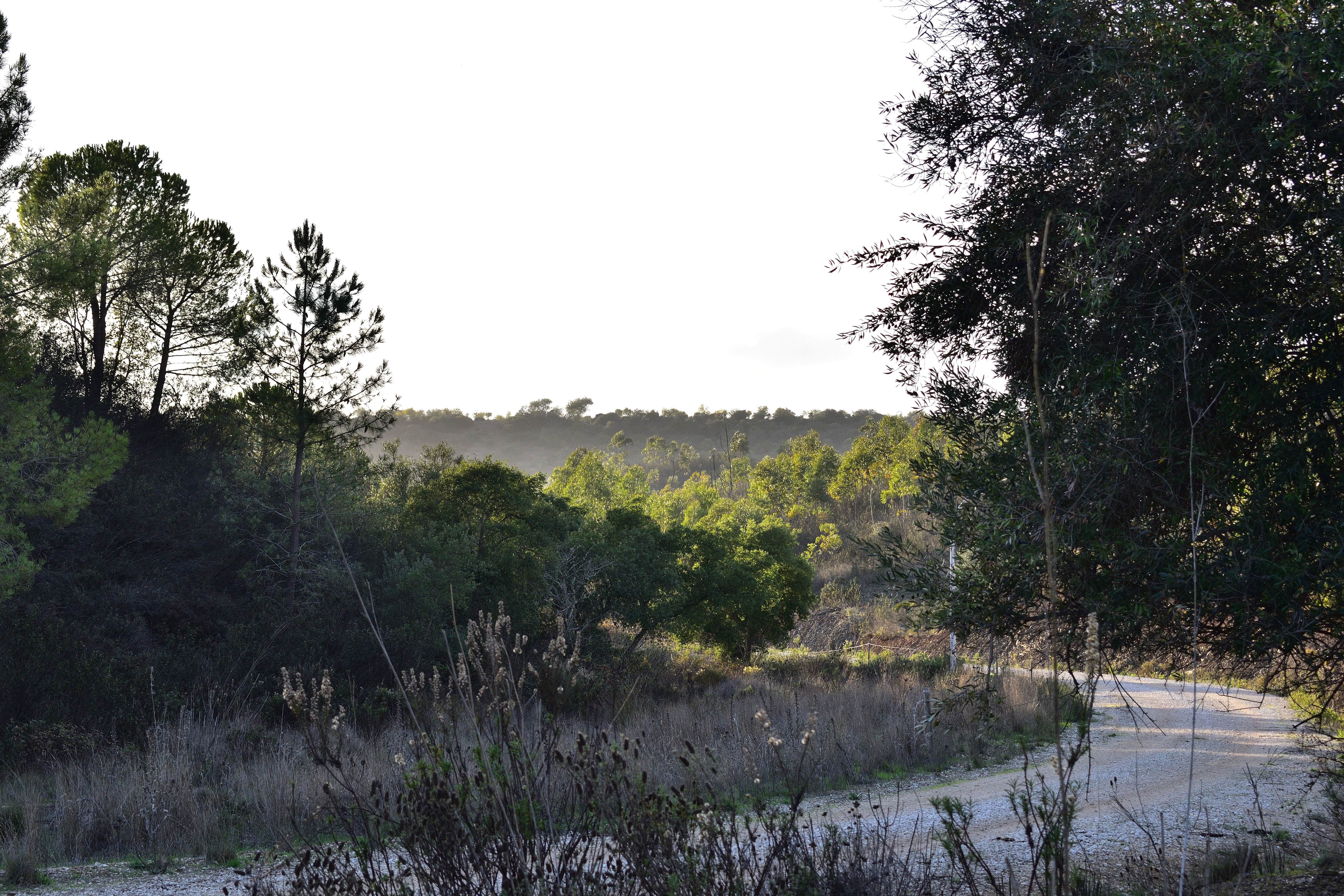 Hill where the archaeological site of Castelo Belinho is located, in Portimão, Algarve - Southern Portugal.